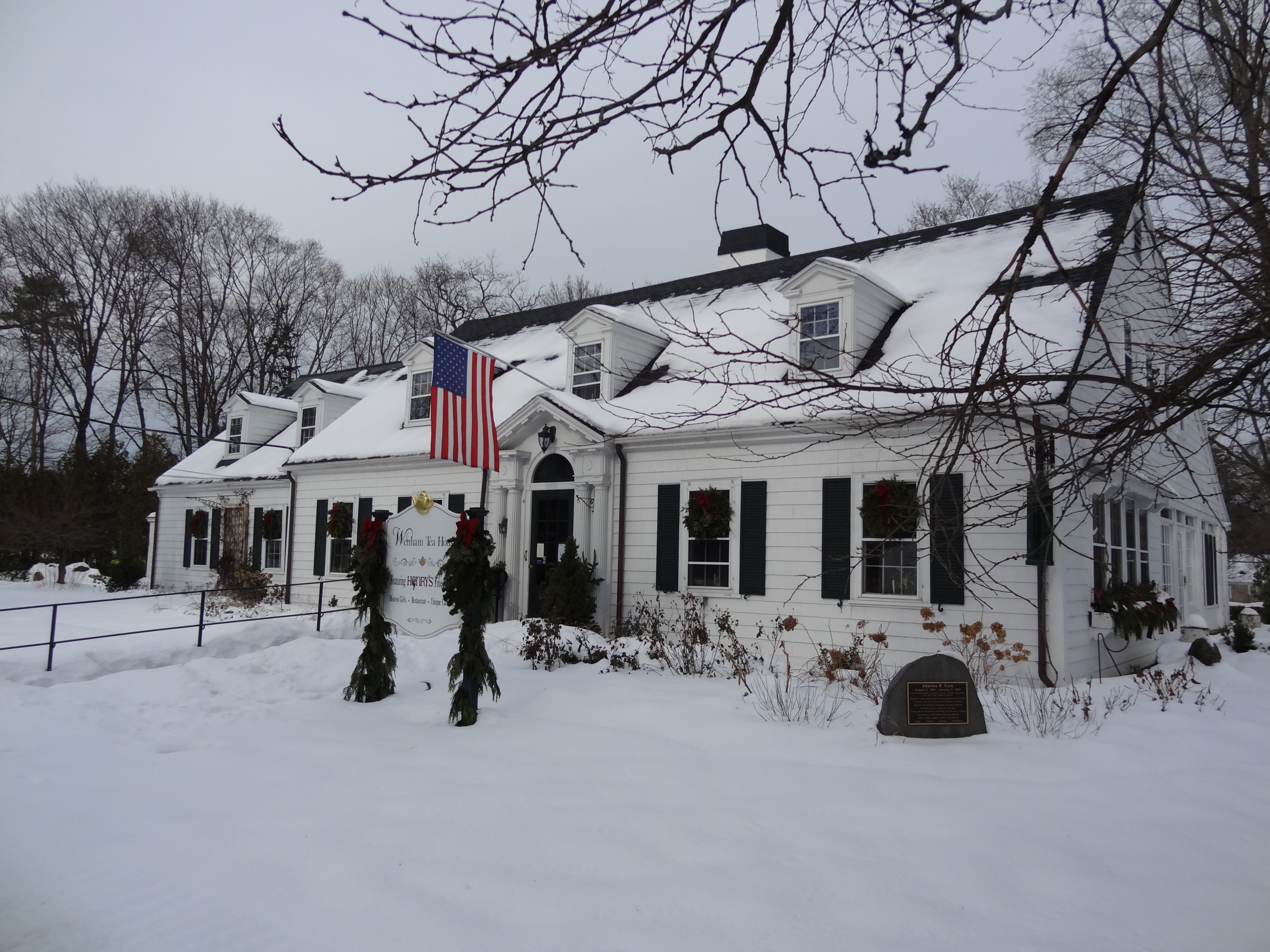 Wenham Tea House 4 Monument Street Wenham, Massachusetts